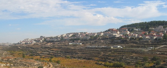 Efrat from hwy 60)